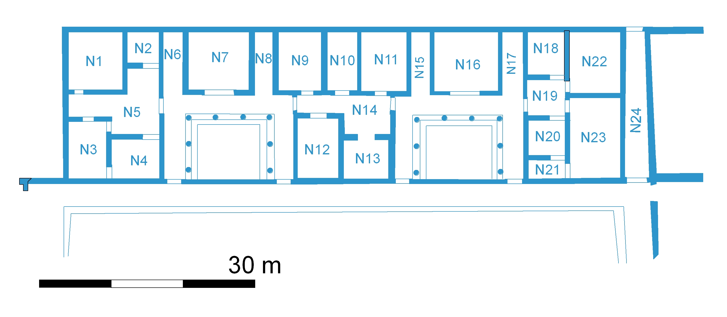 plan of the north wing of the Roman palace at Fishbourne, about AD 85